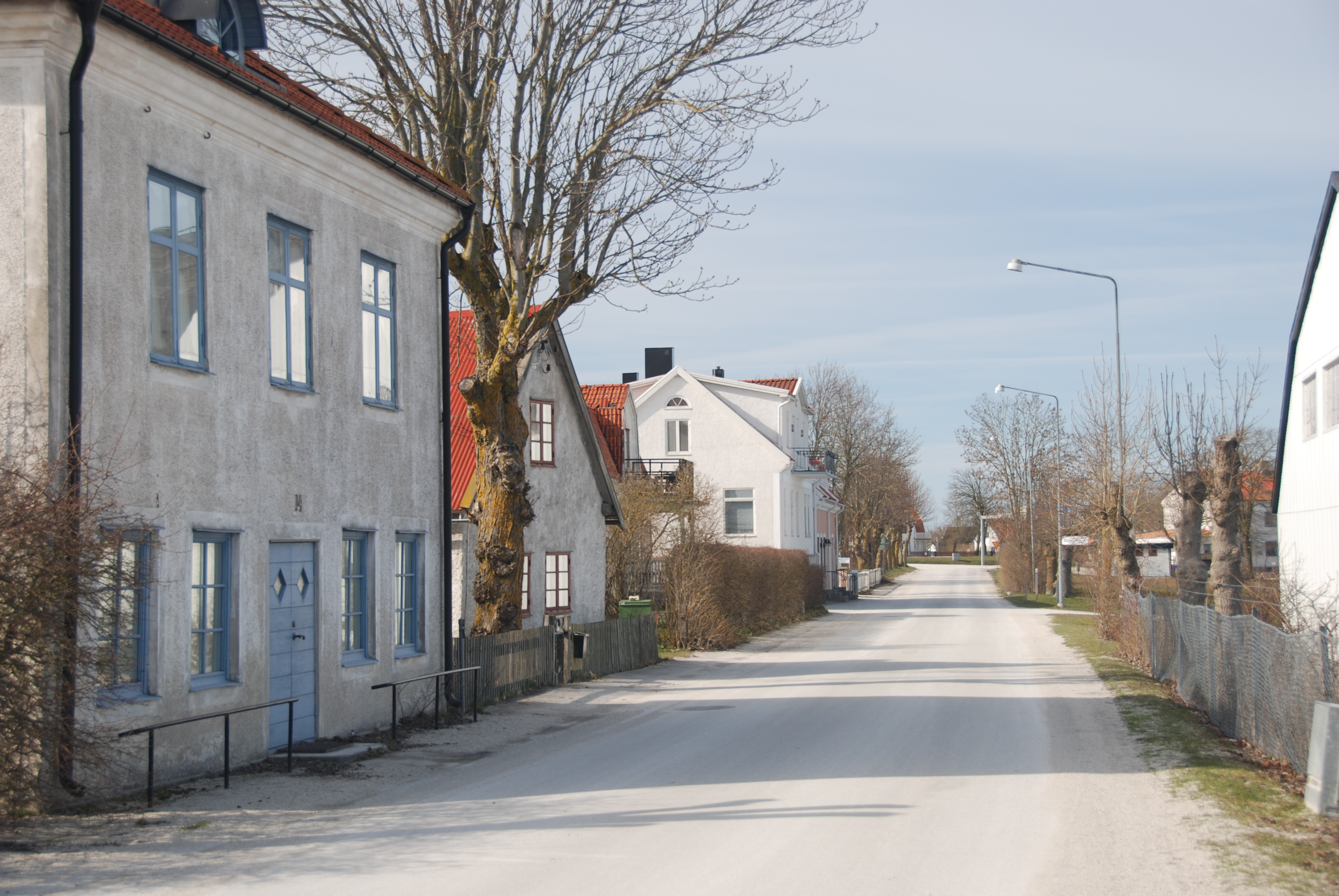 Fårösund on the north side of Gotland.